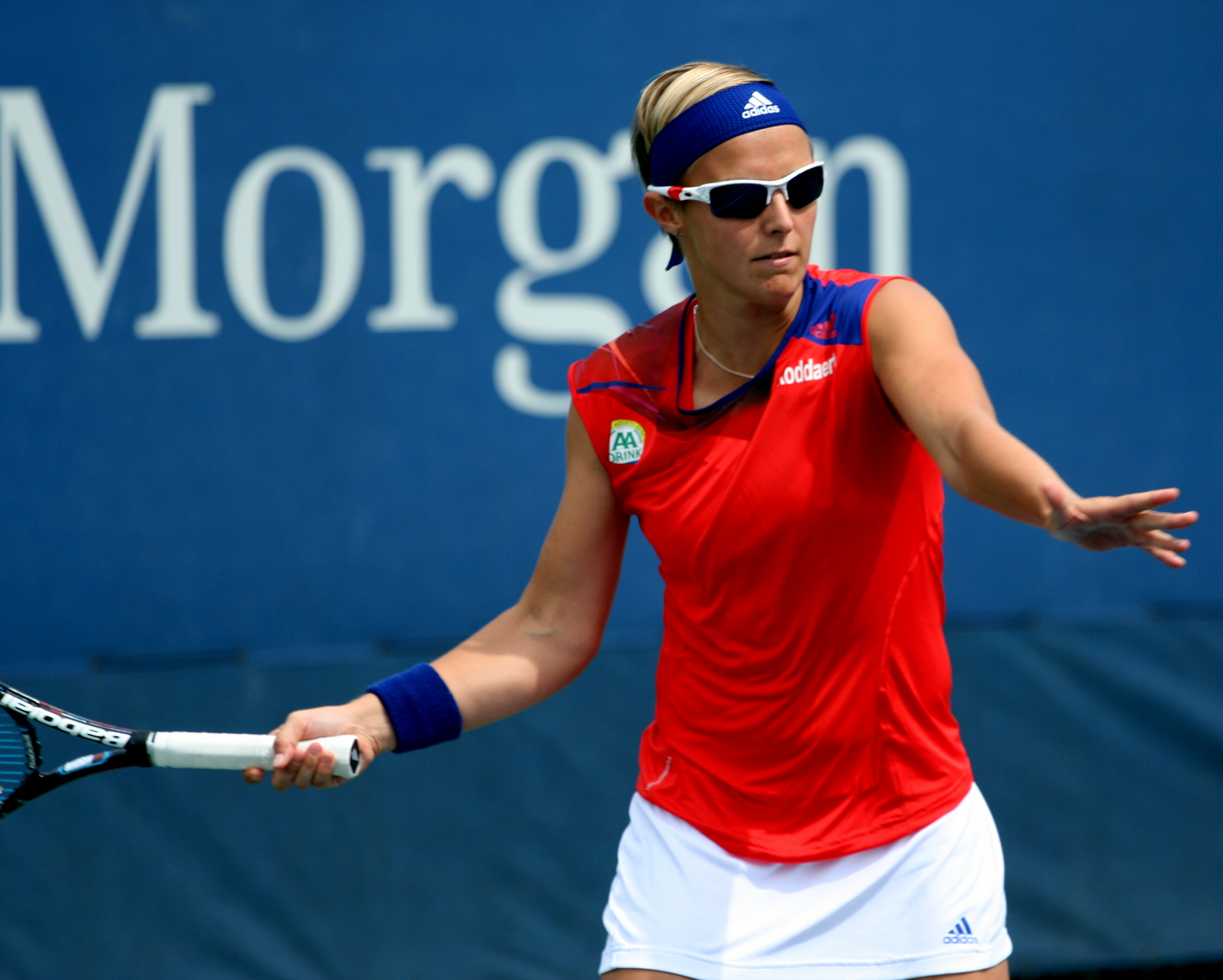 U.S. Open Friday, Aug. 30, 2013